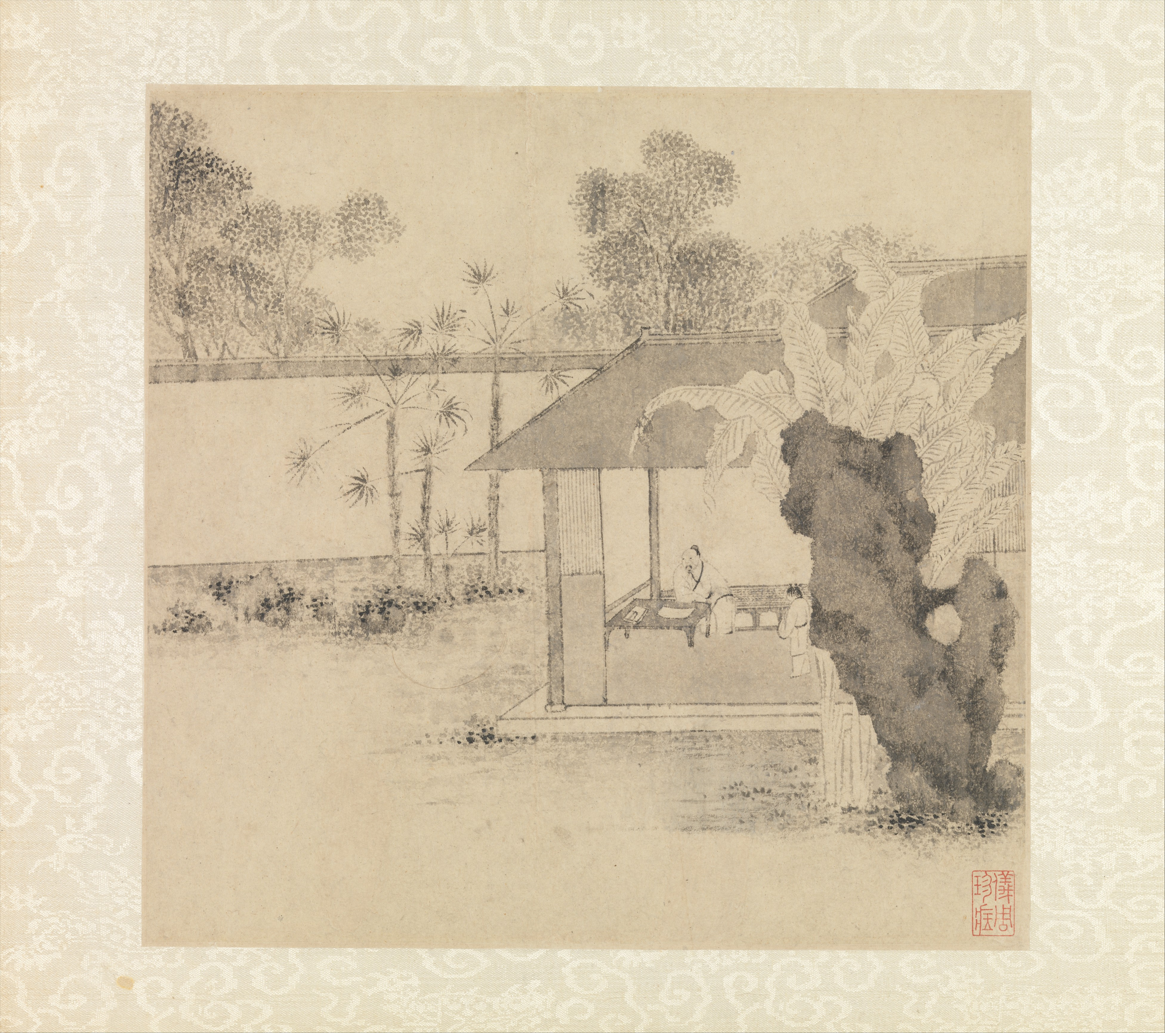 Artist: Wen Zhengming (Chinese, 1470–1559) Date: dated 1551 Medium: Album of eight painted leaves with facing leaves inscribed with poems; ink on paper Dimensions: Image: 10 3/8 × 10 3/4 in. (26.4 × 27.3 cm) Image with mounting: 15 3/8 × 16 3/4 in. (39.1 × 42.5 cm) Double leaf unfolded: 15 3/8 × 33 1/2 in. (39.1 × 85.1 cm) Mat: 18 5/16 × 34 in. (46.5 × 86.4 cm) Accession Number: 1979.458.1a–ii